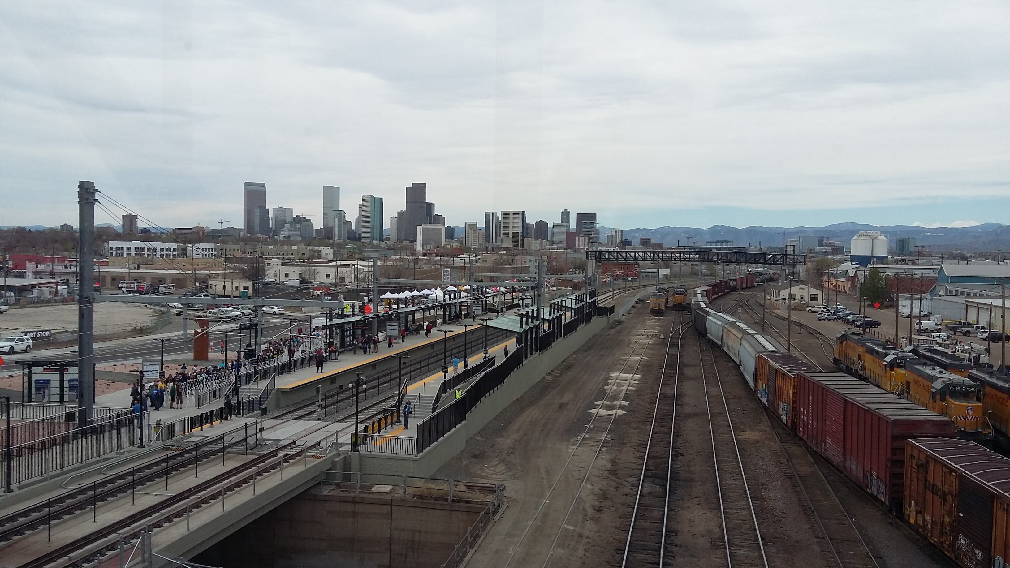 View toward downtown Denver at 38th & Blake Station during the Grand Opening of the University of Colorado A Line.